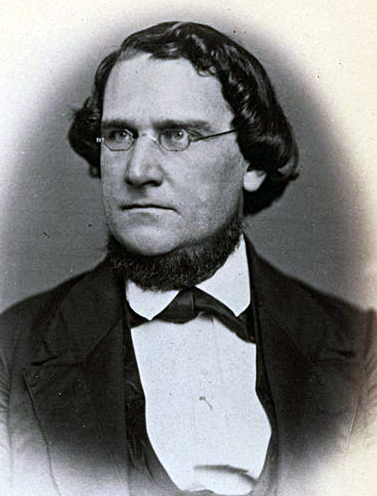 Isaiah D. Clawson, US Representative from New Jersey